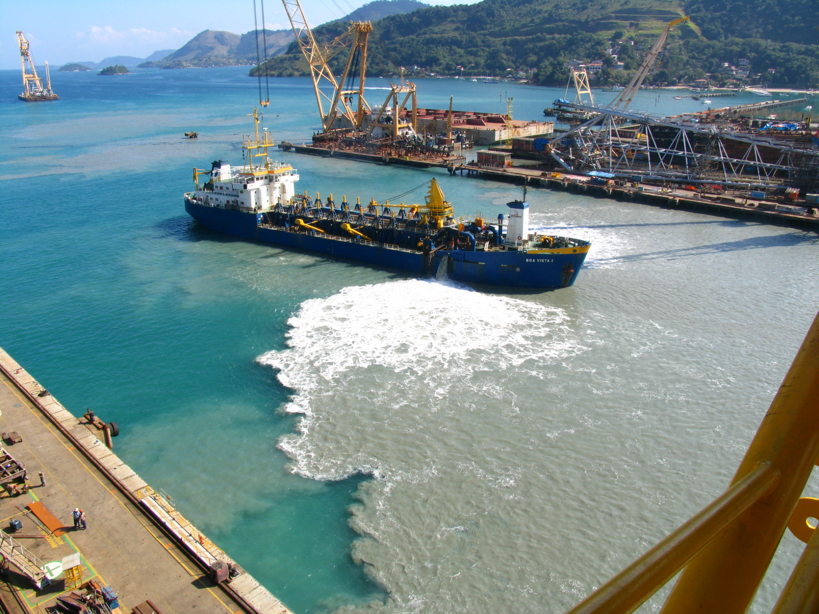 Brasfels shipyard facilities in Jacuecanga Rio de Janeiro Brazil